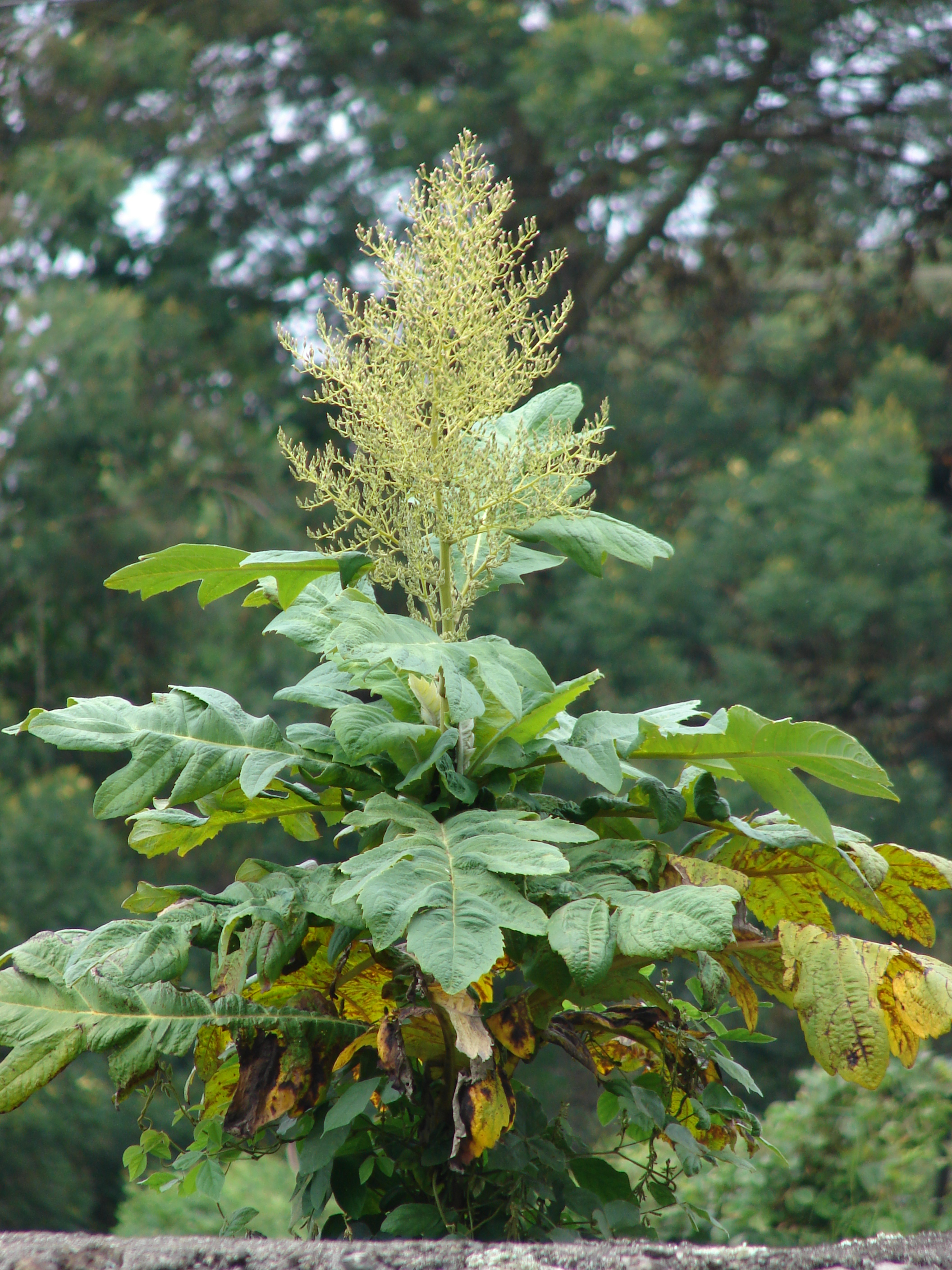 Bocconia frutescens (flowers and leaves). Location: Maui, Keokea